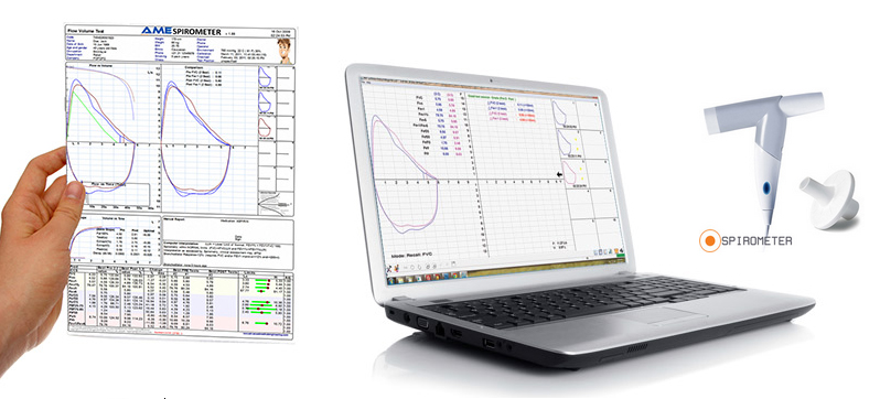 A modern PC based Spirometer.